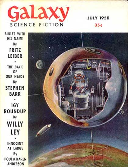 Cover of Galaxy, July 1958